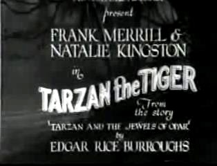 Title card from the American film serial Tarzan the Tiger (1929).